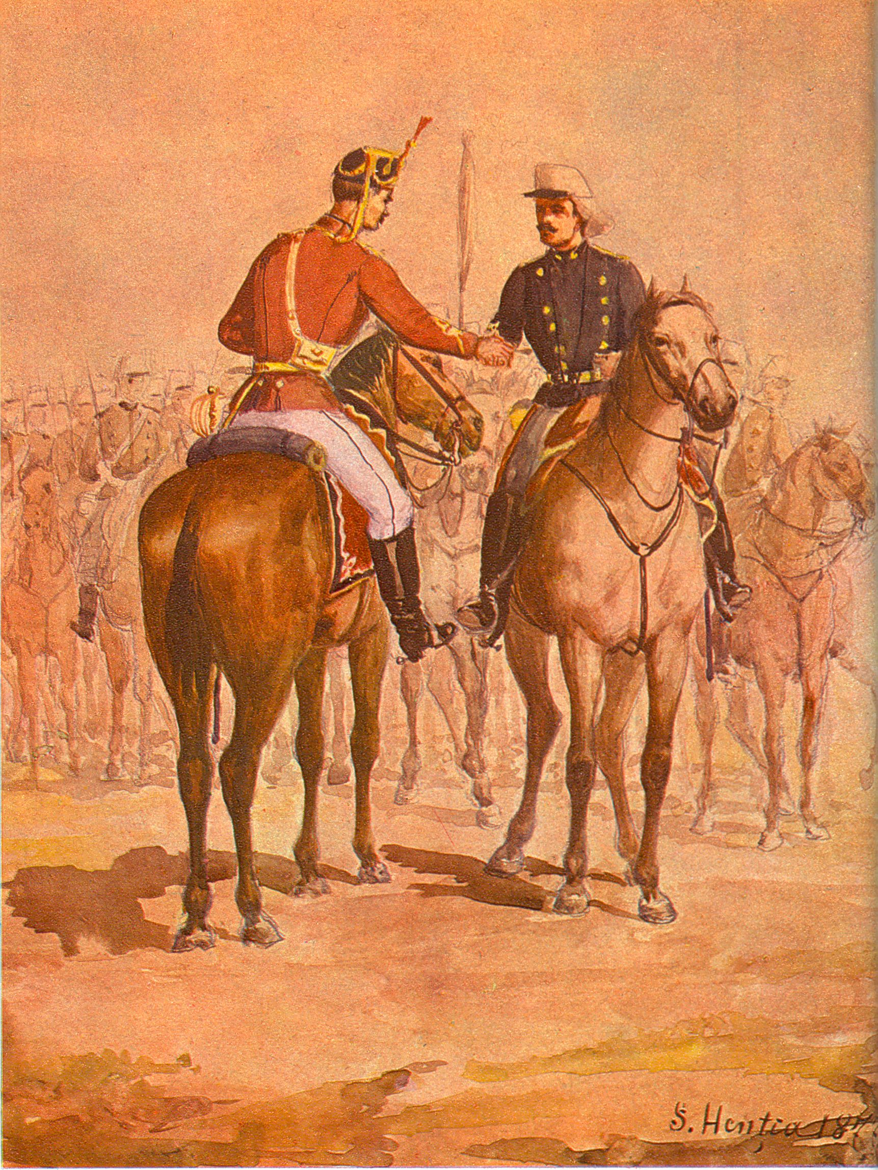 The meeting.